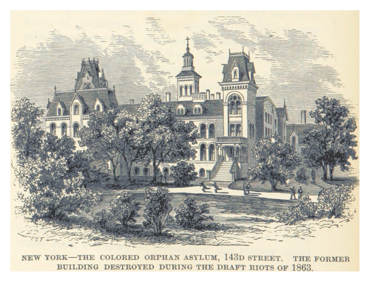 Colored Orphan Asylum at 8th Avenue & 143 Street (1867–1907)